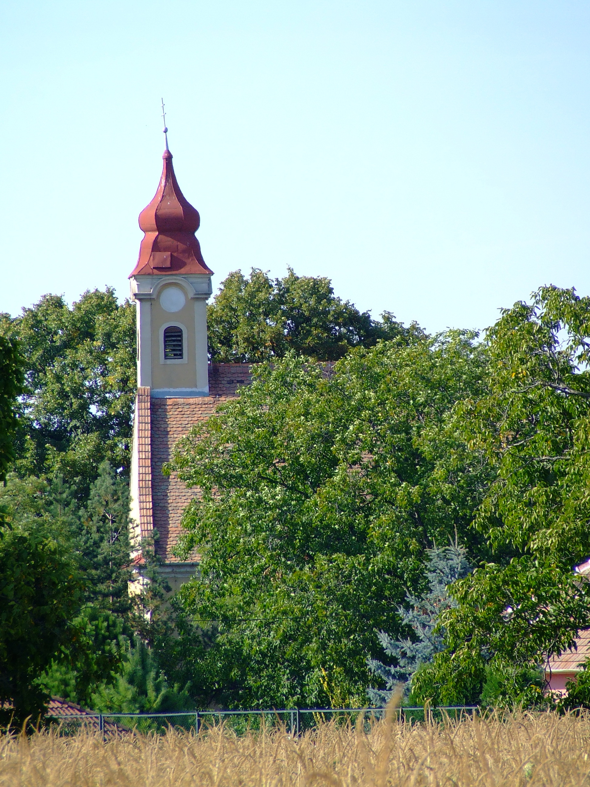 Katolicky kostol Horne Zelenice / The Catholics church